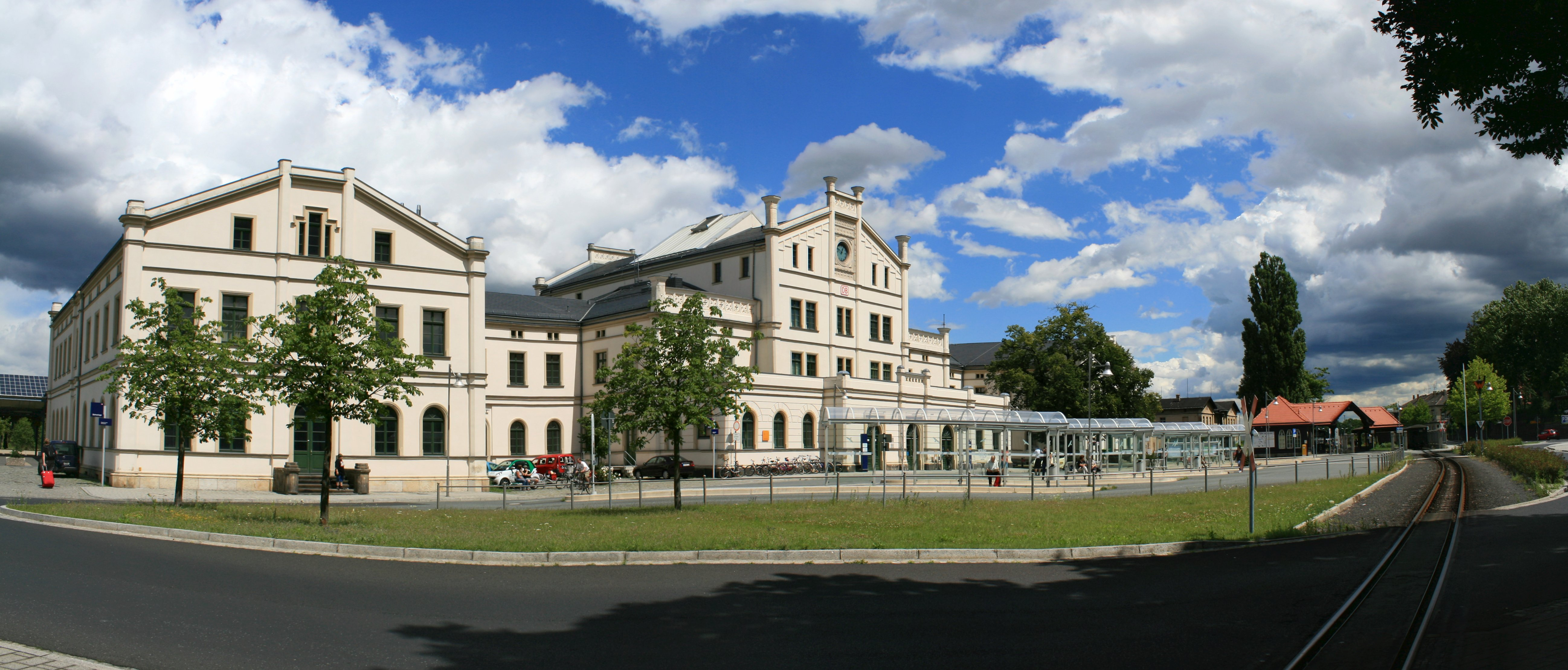 Zittau railway station, Zittau, Saxony, Germany